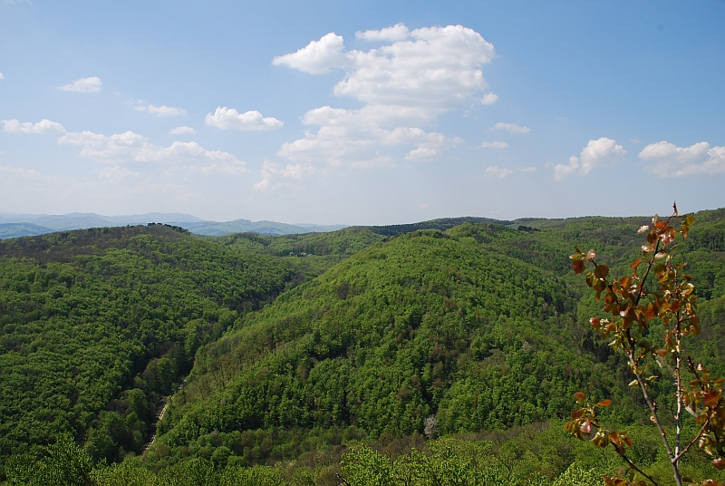 View on the Viennese Forest in the West of the city